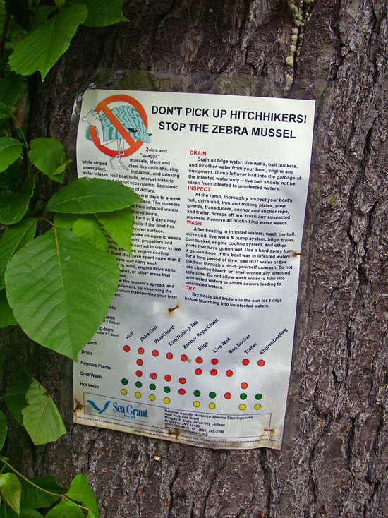 Photographed by Daniel Case 2006-06-10 at the Purdy's boat launch along Route 116.